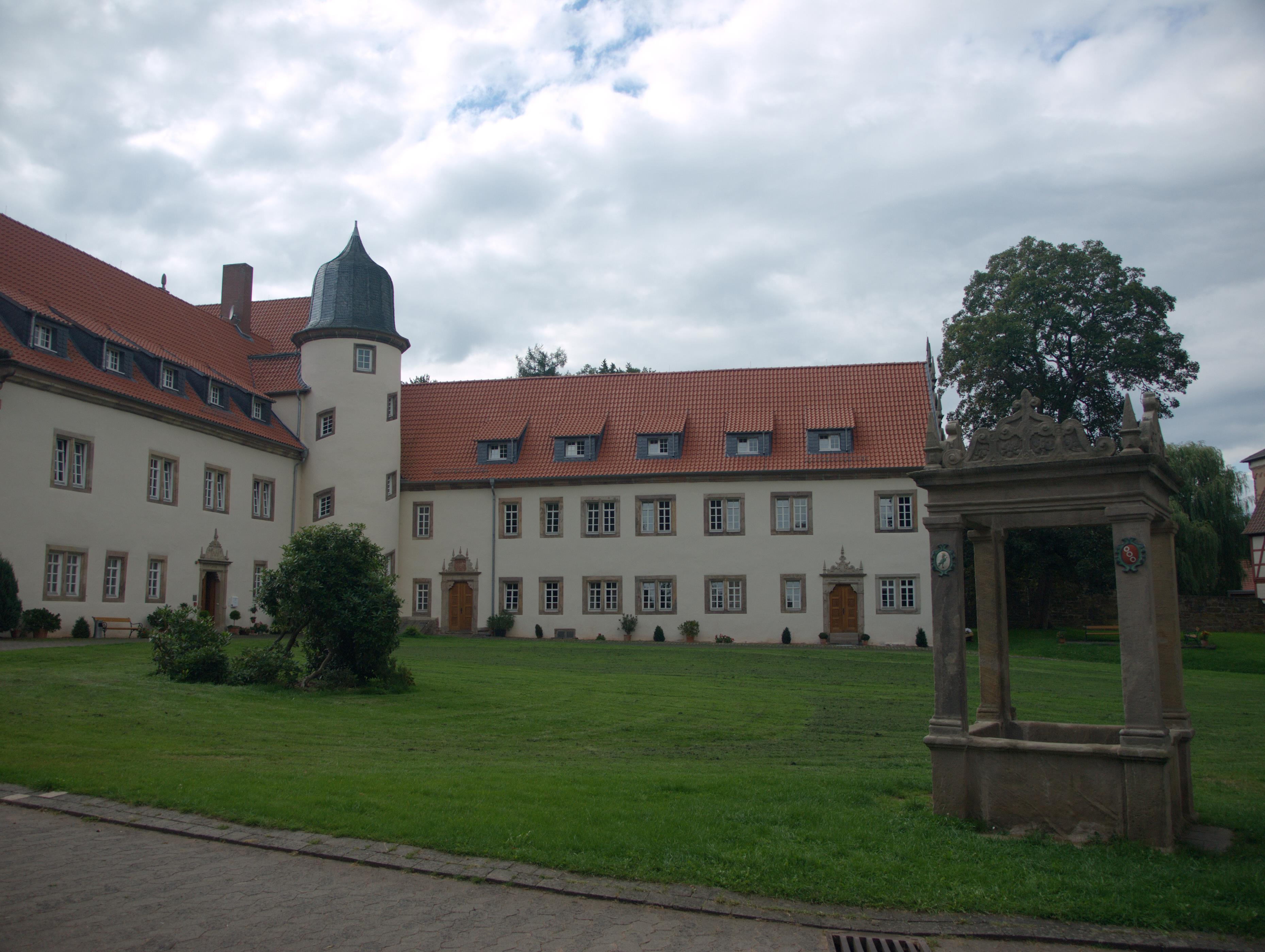 Northern view of Castle Buchenau